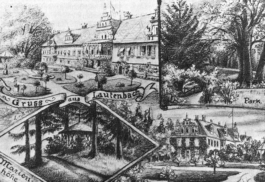 postcard with impressions of the manor house at Lautenbach.